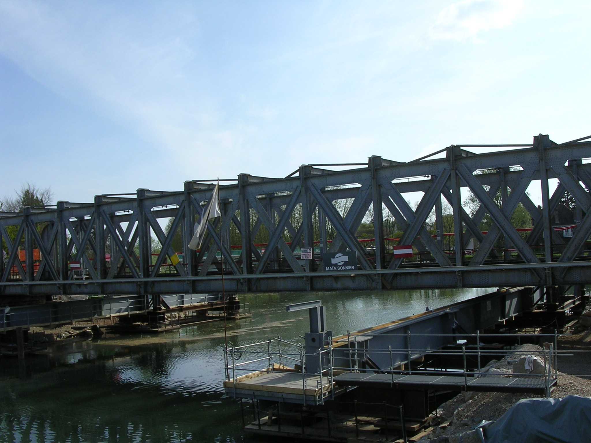 Louhans : Saône et Loire France